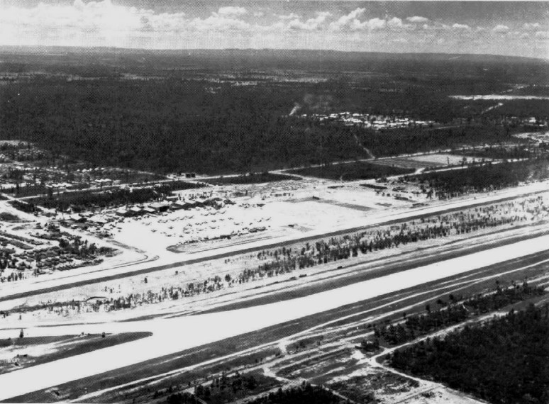 Aerial photo of Royal Thai Air Base Nam Phong, Khon Kaen Province, Thailand. In June 1972 it became a base of operations for United States Marine Corps air operations by Marine Aircraft Group 15, 1st Marine Aircraft Wing. Elements of squadrons that had previously been located in Da Nang, South Vietnam were moved to Namphong starting in June 1972. The advance party that first arrived landed to find basically an airfield in the middle of the jungle. At that time the base consisted of a runway, parking apron and a few wooden buildings. A United States Navy Seabee battalion was soon clearing the jungle and some 10 man tents were hastily erected to sleep and work in. Since the conditions were rugged, the base soon came to be called "The Rose Garden" after the song by Lynn Anderson and the Marine recruiting campaign based on it saying "We never promised you a Rose Garden", depicting a scary Marine Drill Instructor addressing a mortified recruit. The squadrons soon in residence included H&MS-15, MABS-15, VMFA-115 and VMFA-232 with F-4J Phantom IIs, VMA(AW)-533 with A-6A Intruders, VMGR-152 with KC-130F Hercules, and H&MS-36, Det "D" with CH-46 Sea Knights. This group soon was joined by 3rd Battalion 9th Marines who served as the security element. Marine Air Traffic Control Unit 62 (MATCU 62) handled the airport traffic control operations including the airport tower and GCA radar(Ground Controlled Approach). The force occupying "The Rose Garden" was designated Task Force Delta. The base was made up of Marines, Sailors (Medical and Construction staff), Air Force (mostly cargo handing), and Thai military elements. The base was in existence until September 1973 when all the units returned to their home bases.